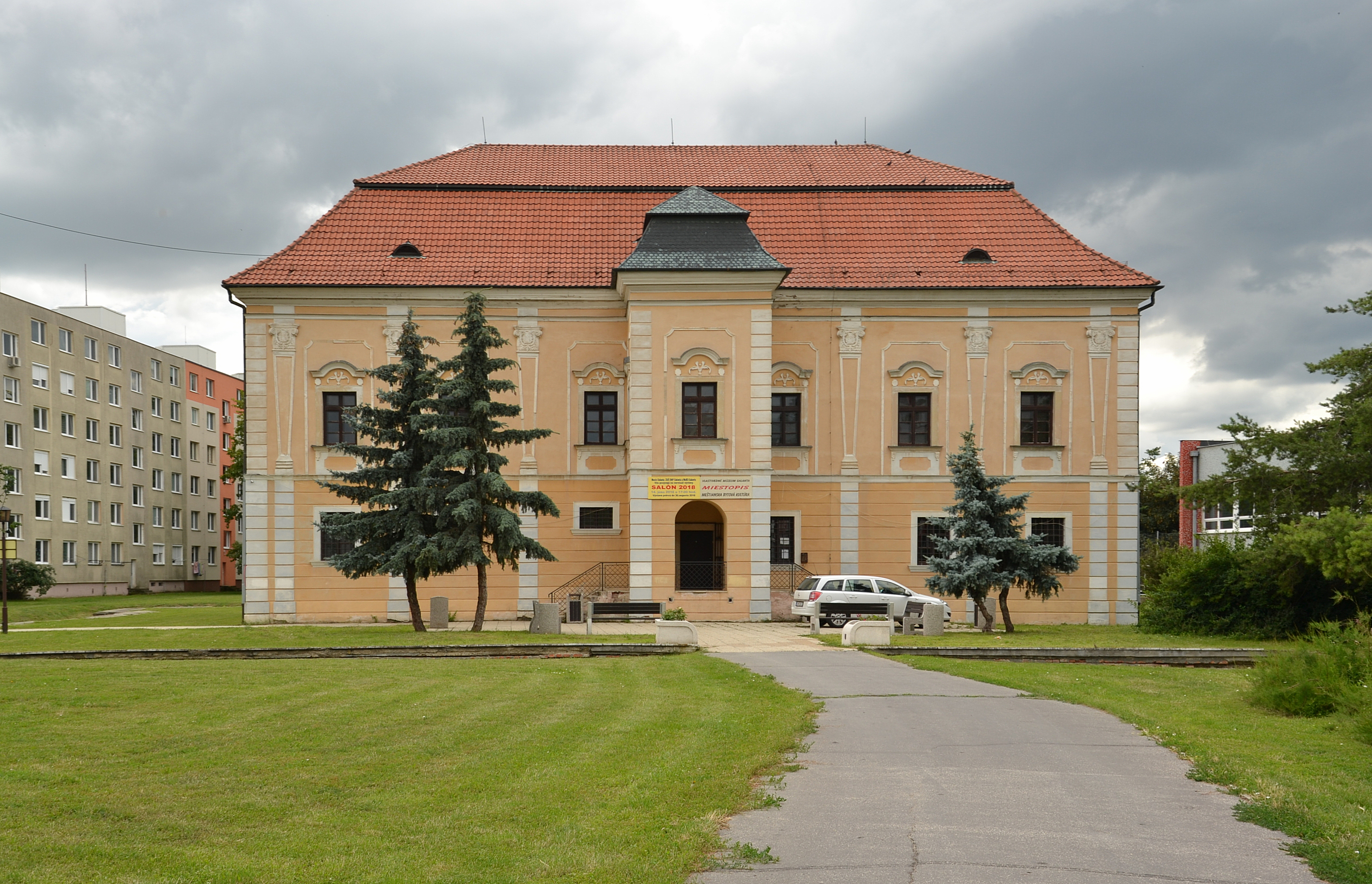 Manor in Galanta (Galánta), Slovakia